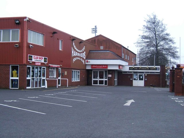 Kidderminster Harriers Football Club ground, Hoo Road. The club's ground is in the Aggborough area of Kidderminster and officially is known as Aggborough Stadium. It draws an average crowd of around the 1600 mark and rarely exceeds 2000. Unfortunately this means David Beckham is unlikely to be seen here. Despite this, the club ground offers a lot of facilities. As can be seen here, it not only has its own shop but it also has a hospitality suite, known as the Aggborough Suite, which can be hired for functions. Last, but not least, it has its own pub known as The Harrier Arms. This is quite a popular pub and is not just open on match days. It can be seen on the right of this view. Supporters also have the option of joining the social & supporters club. 1327478. The club has its own website